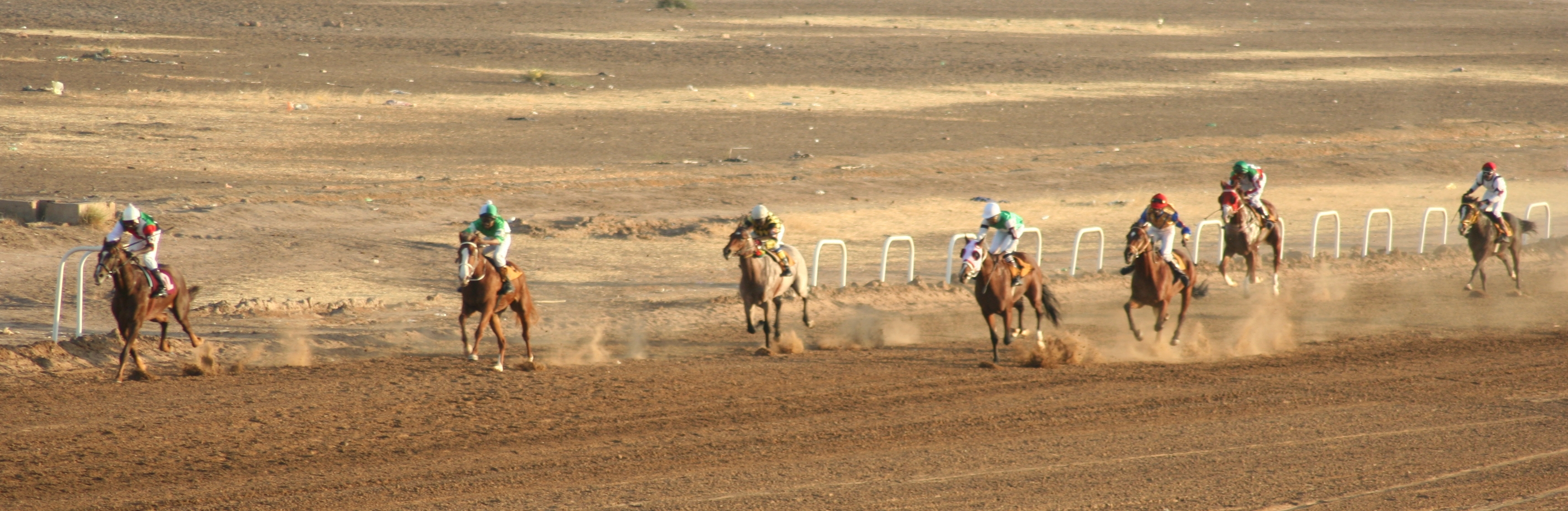 Horse racing in Khartoum, Friday afternoon